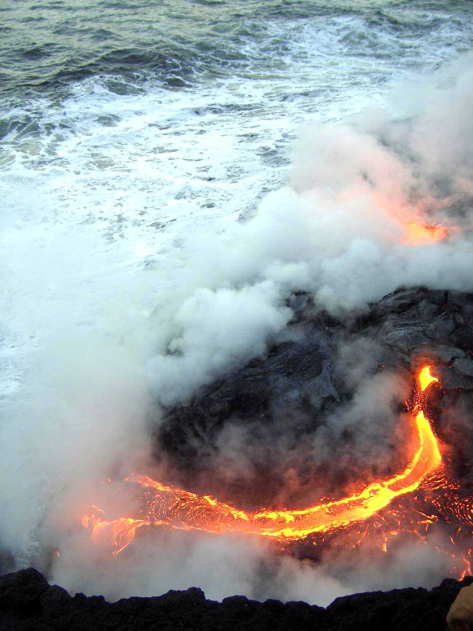 Lava reaching the ocean. La Réunion, 2004.